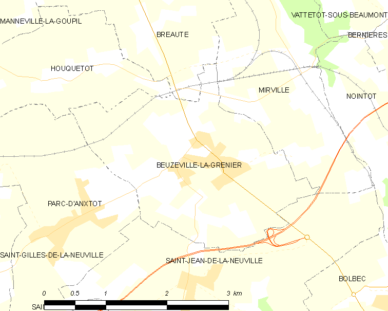 Map of French municipality Beuzeville-la-Grenier